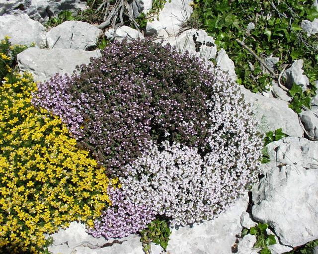 (en) Garden Thyme (Thymus vulgaris), in France (Bouche du Rhône), a photography originating of the internet site The accord of the autor, H. Brisse, is here. (fr) Thym commun (Thymus vulgaris), en France (Bouche du Rhône), une photographie issue du site internet L'accord de l'auteur, H. Brisse, se situe ici. (de)Echter Thymian, (it)Timo maggiore, (es)Tomillo común